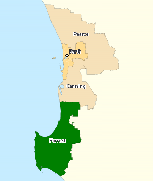 Incorporates or developed using Administrative Boundaries ©PSMA Australia Limited licensed by the Commonwealth of Australia under Creative Commons Attribution 4.0 International licence (CC BY 4.0). Derived from State and Territory Boundaries from the Australian Bureau of Statistics under Creative Commons Attribution 2.5 Australia license (CC BY 2.5 AU)